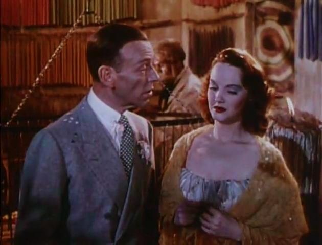 Fred Astaire & Lucille Bremer in Yolanda and the Thief - trailer (cropped screenshot)